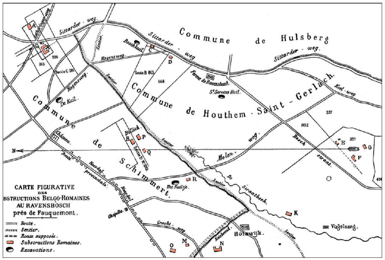 Map by Jozef Habets of the archaeological excavations of Roman villa's in the area around Ravensbosch, Valkenburg, Limburg, the Netherlands. Colour added by Kleon3.